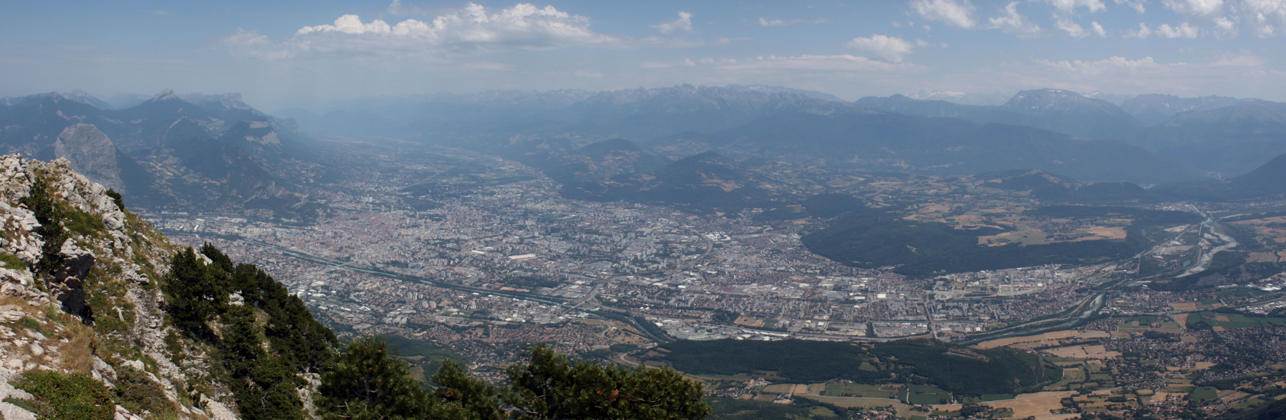 Panoramic view of Grenoble, seen from mount Moucherotte.